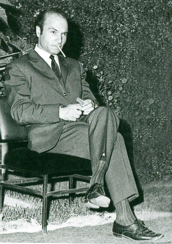 ALI SHARIATI